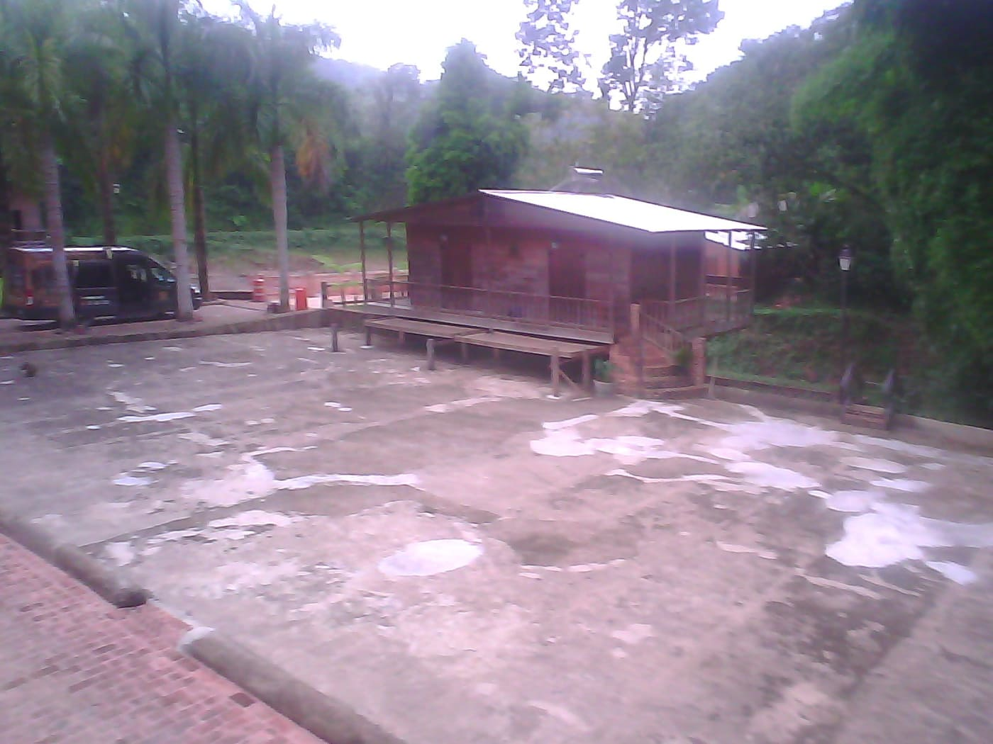 Place where the coffee beans were dried under the sun in Hacienda Lealtad, a coffee plantation in Lares, Puerto Rico